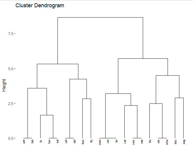 Dendrogram of animals dataset